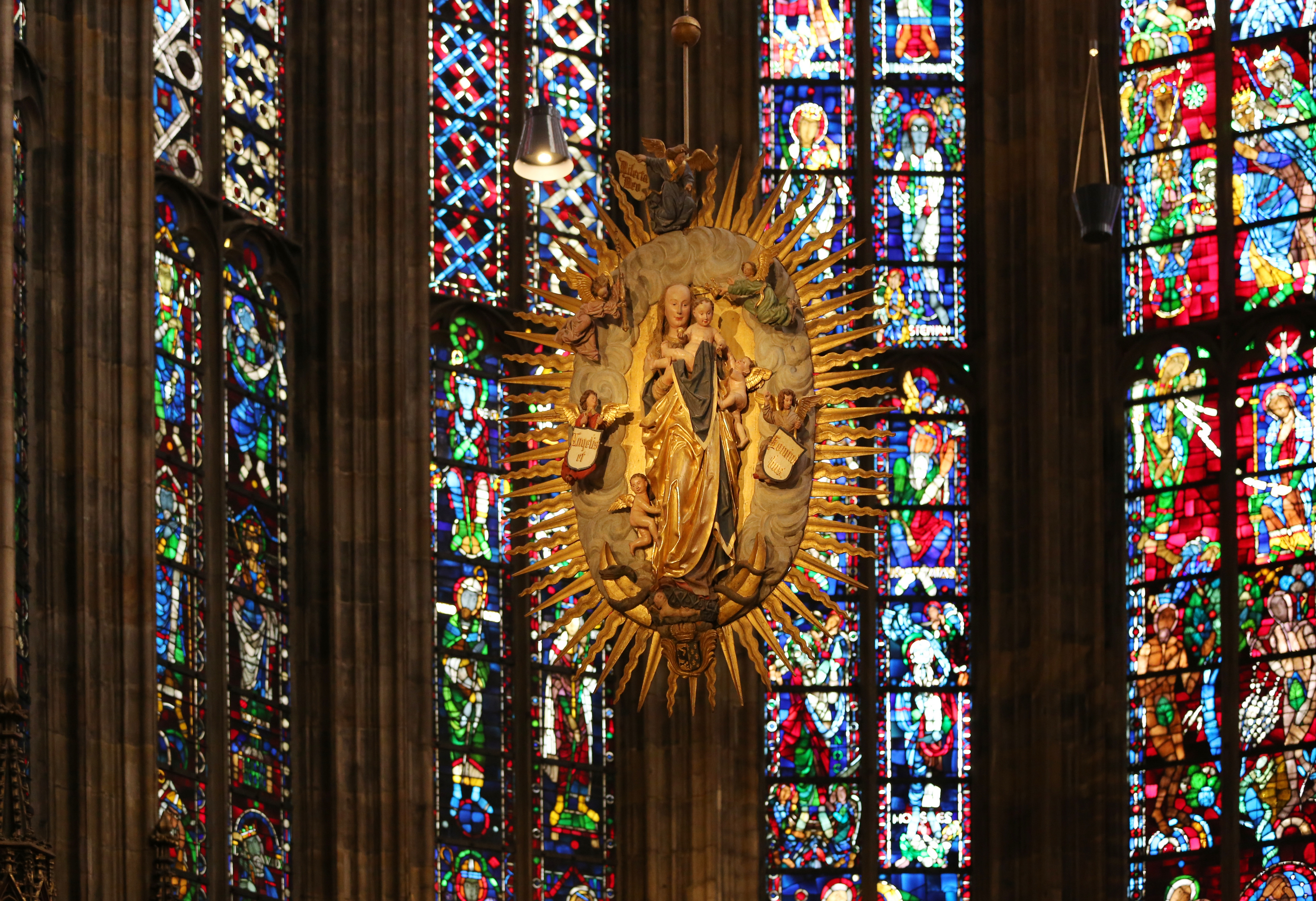 Interior of Aachen Cathedral: Our Lady (1524, oak wood, height 172 cm) and Stained glass windows of the Choir